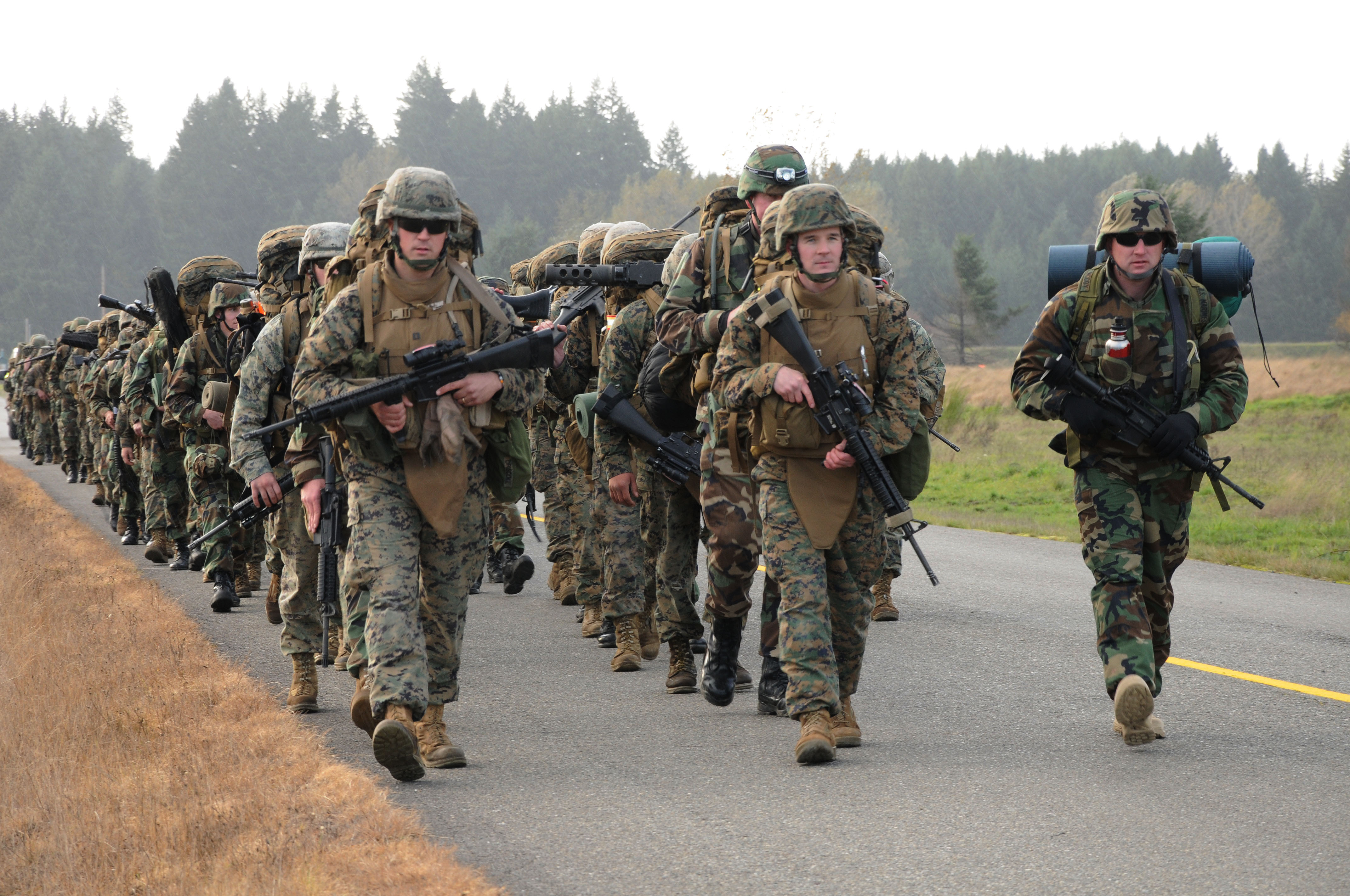 JOINT BASE LEWIS-MCCHORD, Wash. (Oct. 25, 2010) Sailors and Marines assigned to Marine Corps Security Force Battalion carry their battle gear on a seven-mile march as part of combined force-on-force training. More than 150 Sailors and Marines took part in the weeklong field training exercise, which focused on military operations in urban terrain, urban patrolling, building assaults and room clearing. (U.S. Navy photo by Mass Communication Specialist 2nd Class Maebel Y. Tinoko/Released)